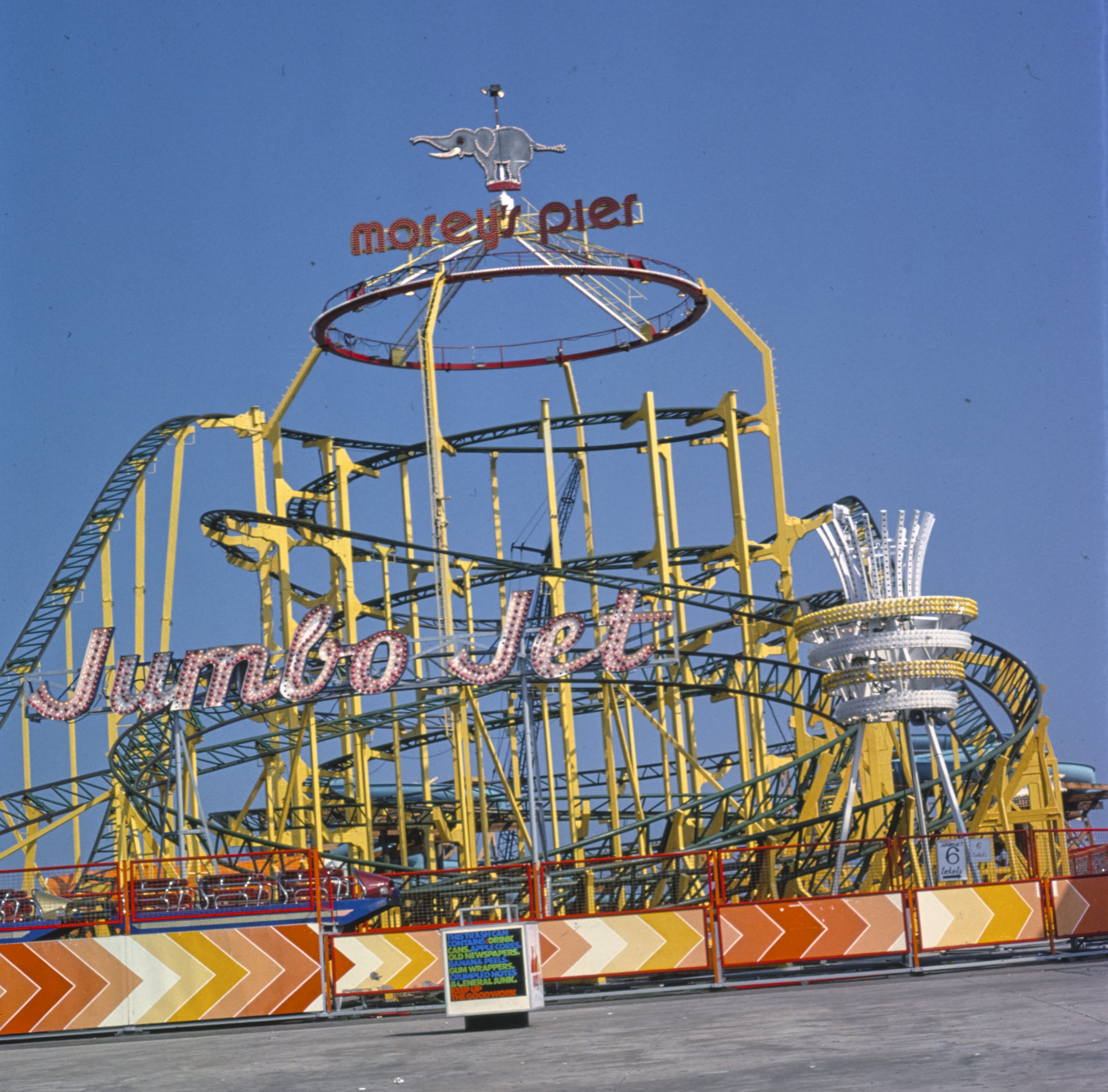 Image of the Jumbo Jet roller coaster at Morey's Piers